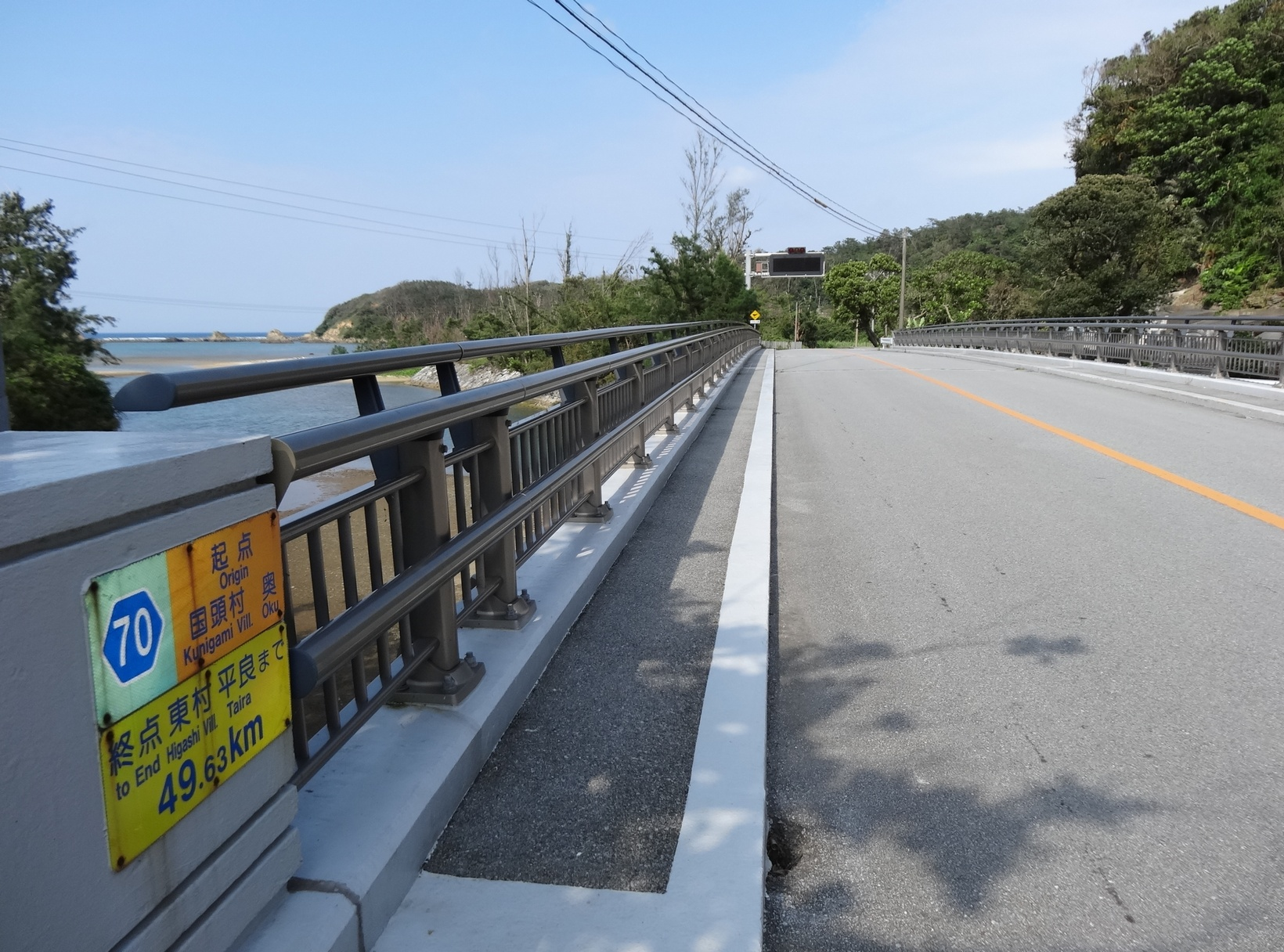 Okinawa Prefectural Road No.70 ; Kunigami - Higashi Line (Oku, Kunigami Village, Okinawa Prefecture, Japan)